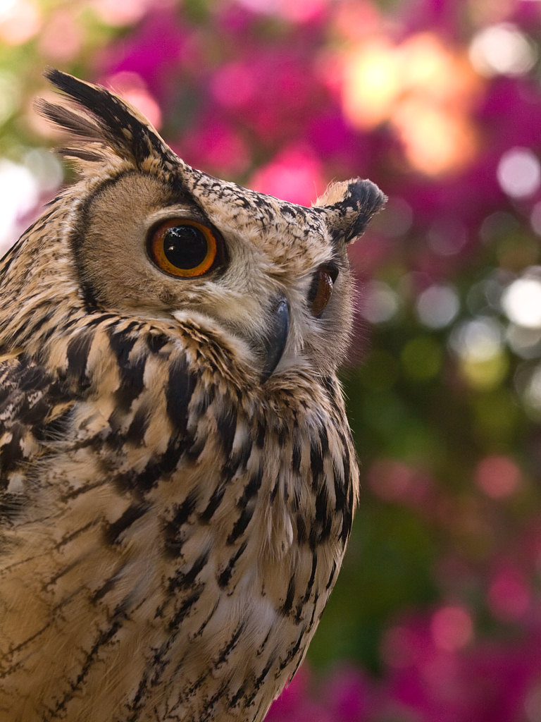 Turkestan Eagle Owl at Kakegawa Kacho-en, Japan.